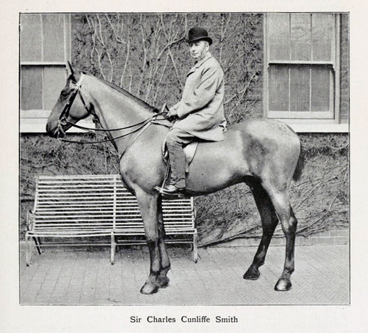 Sir Charles Cunliffe Smith, 3rd Baronet (1827–1905) in Leaves from a Hunting Diary in Essex (1900).